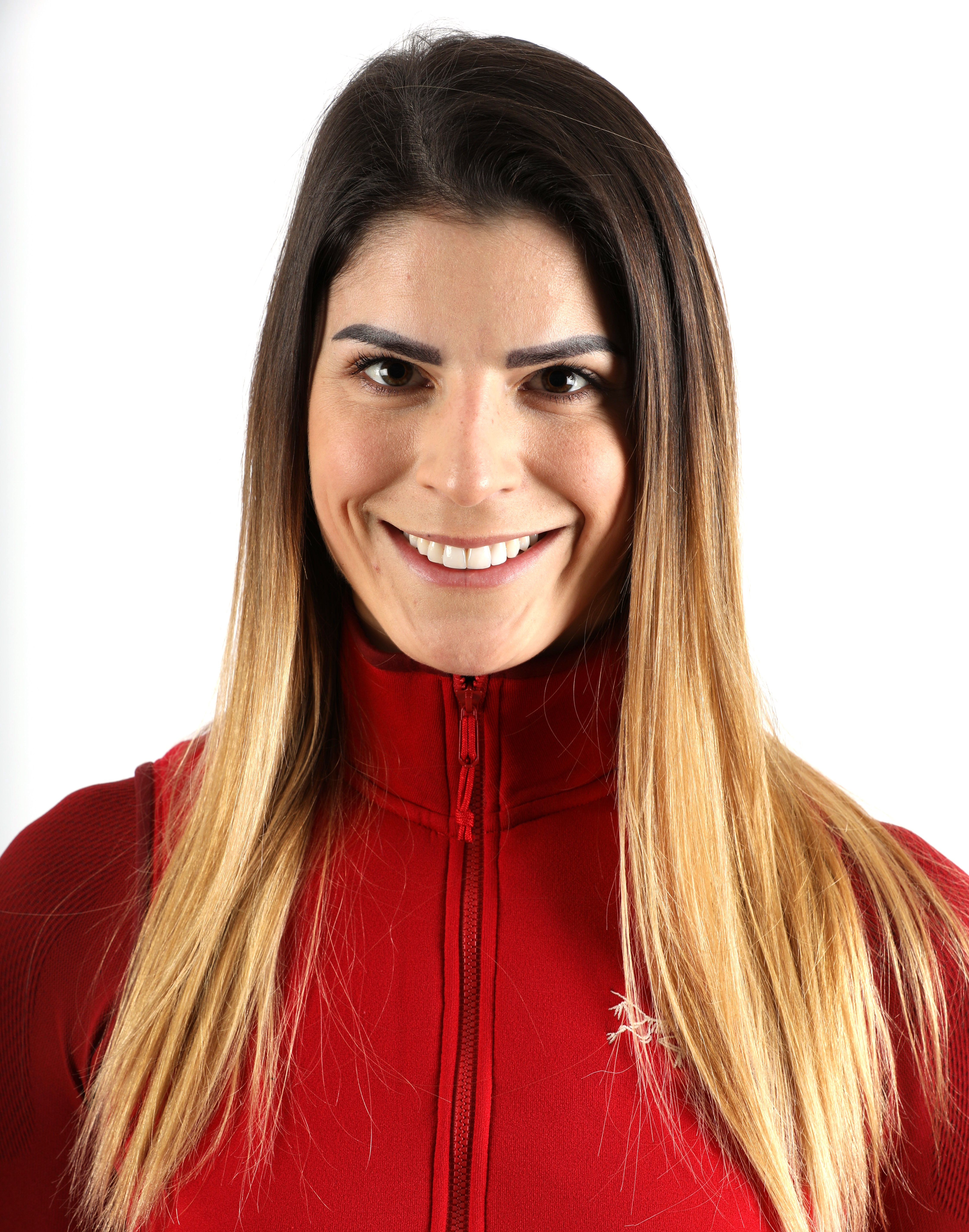 Athletes' photo project at the 2018/19 Innsbruck-Igls Luge World Cup: Ewa Kuls-Kusyk (Poland)